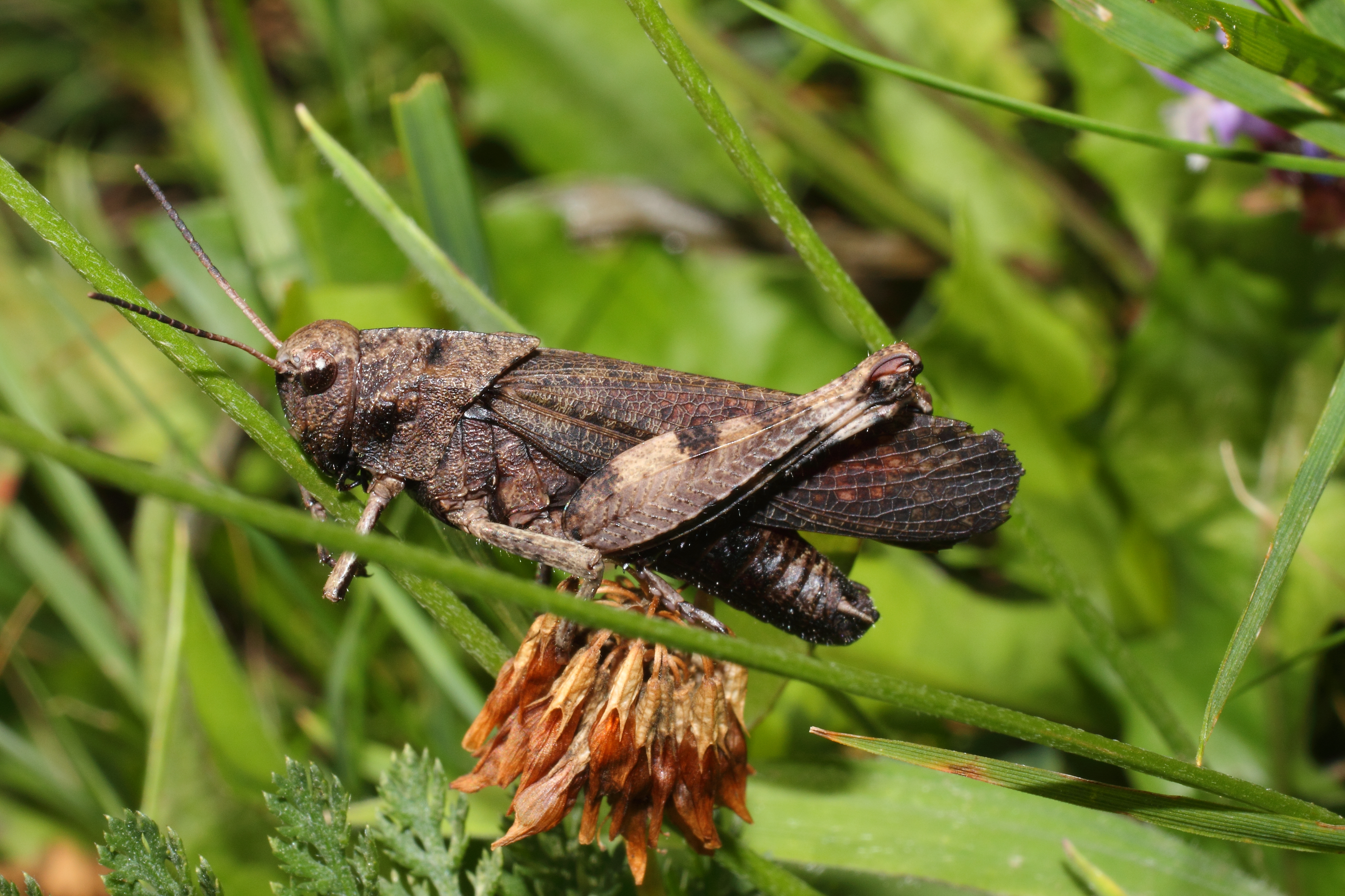 Psophus stridulus (male)